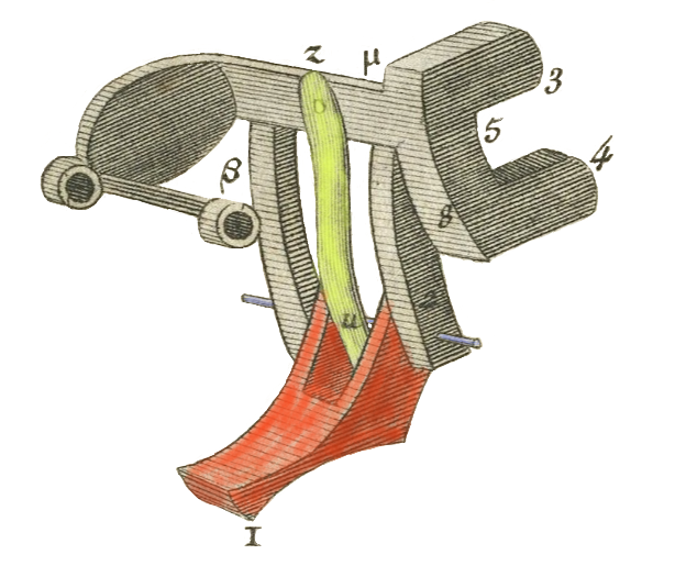 Drawing of a sautoir of the Pascaline taken from a 1779 publication and colored for a better understanding of its parts